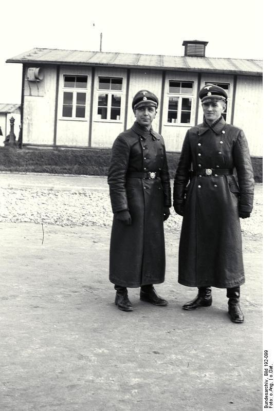 Information added by Wikimedia users.Georg Bachmayer, a commandant of Mauthausen-Gusen concentration camp on left, with one of the SS guards.